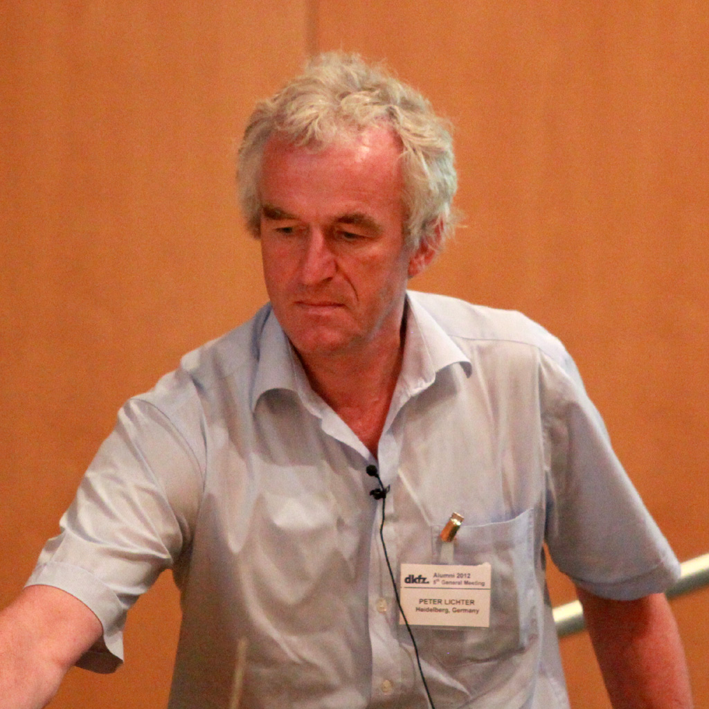 Peter Lichter, at the 5th International Alumni Meeting at the German Cancer Reasearch Center (DKFZ) in Heidelberg